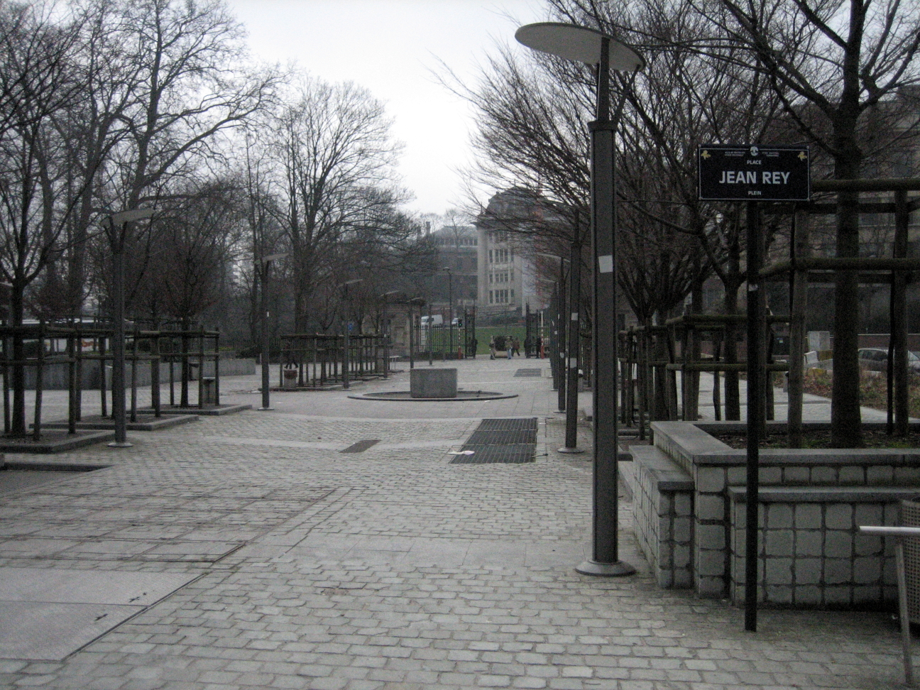 Place Jean Rey, European Quarter of Brussels.